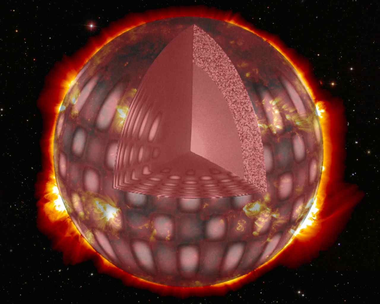 Stellar pulsations